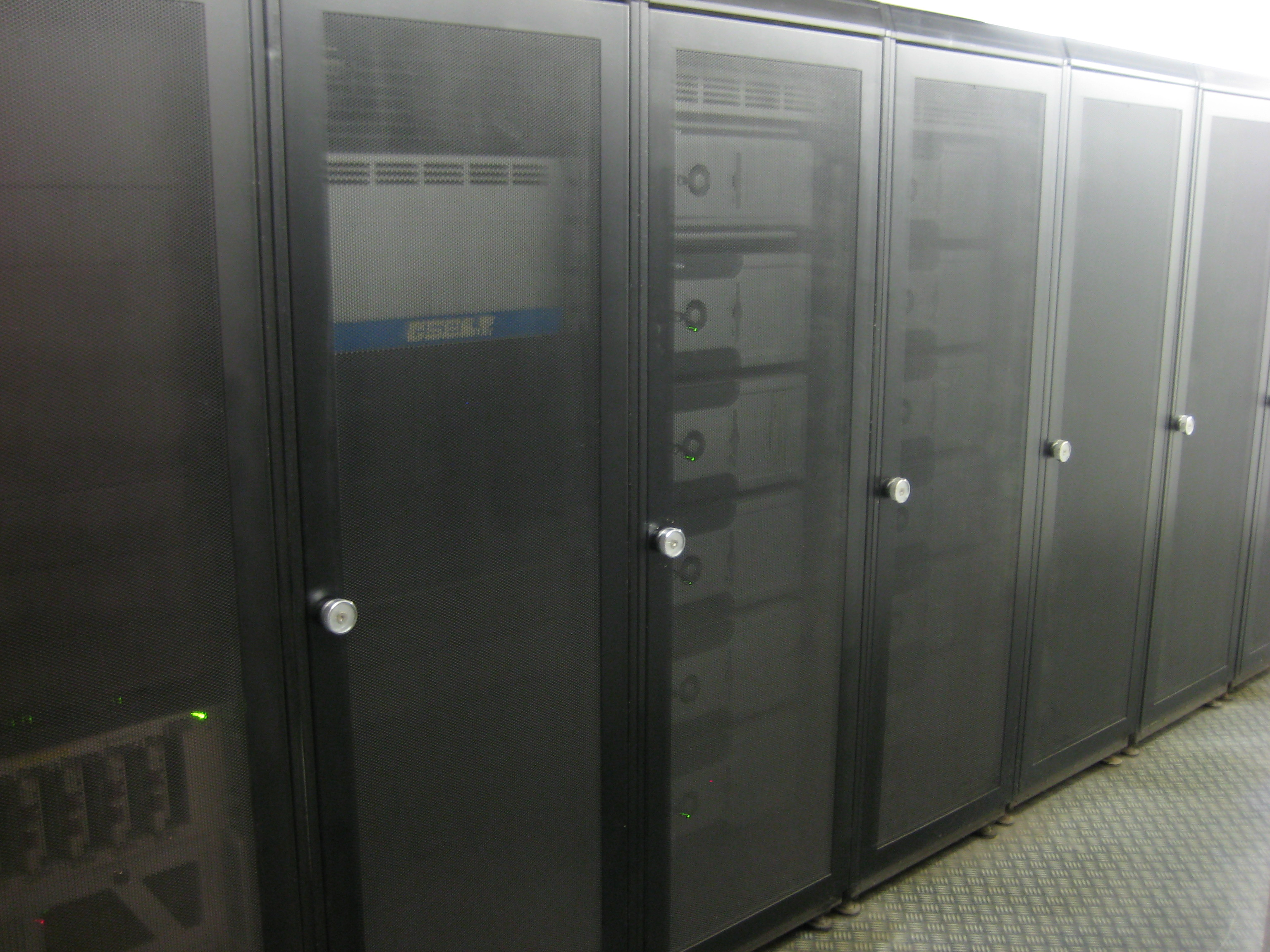 CyberBunker Data Center